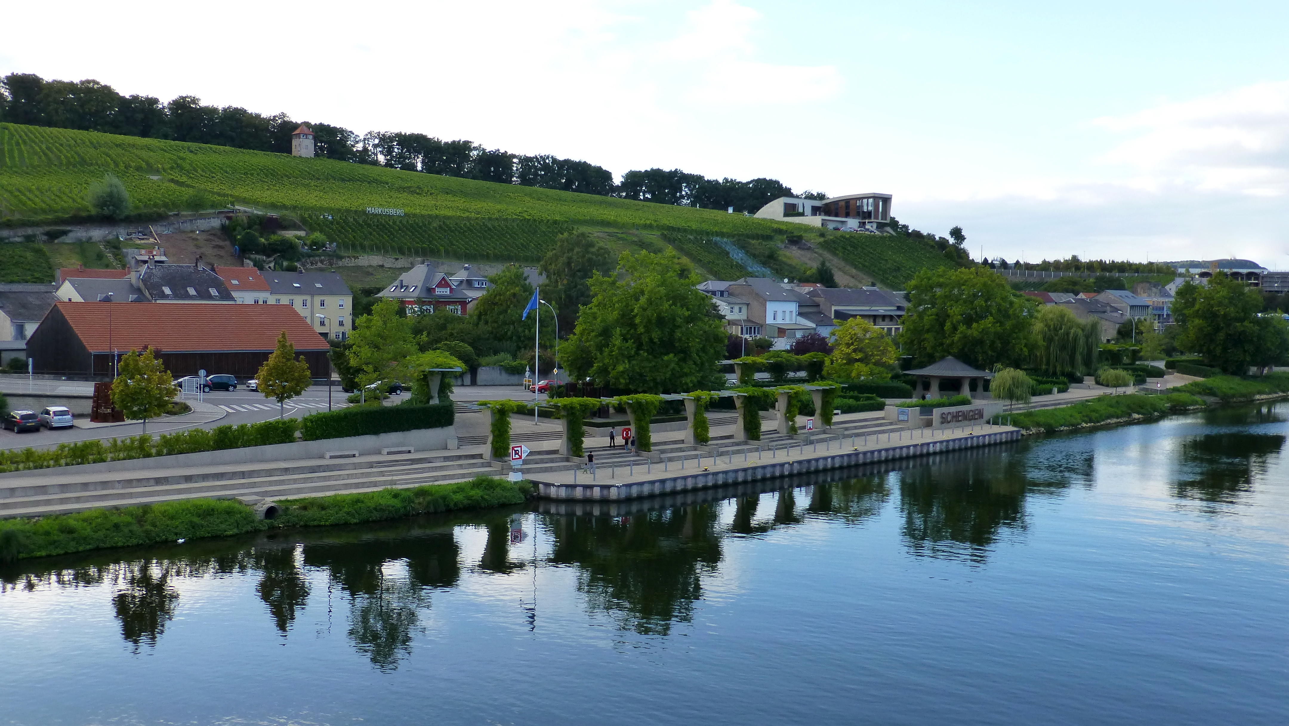 SCHENGEN, with vineyards Markusbierg, LU